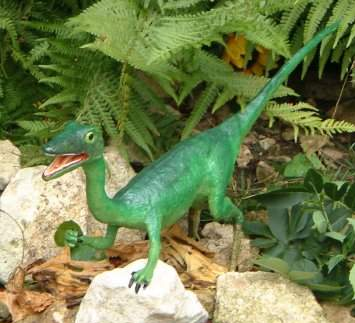 A life-sized model of Procompsognathus dinosaur built by Steve Baldock, otherwise known as the musician Dr. Busker. Photograph by Amos E Wolfe